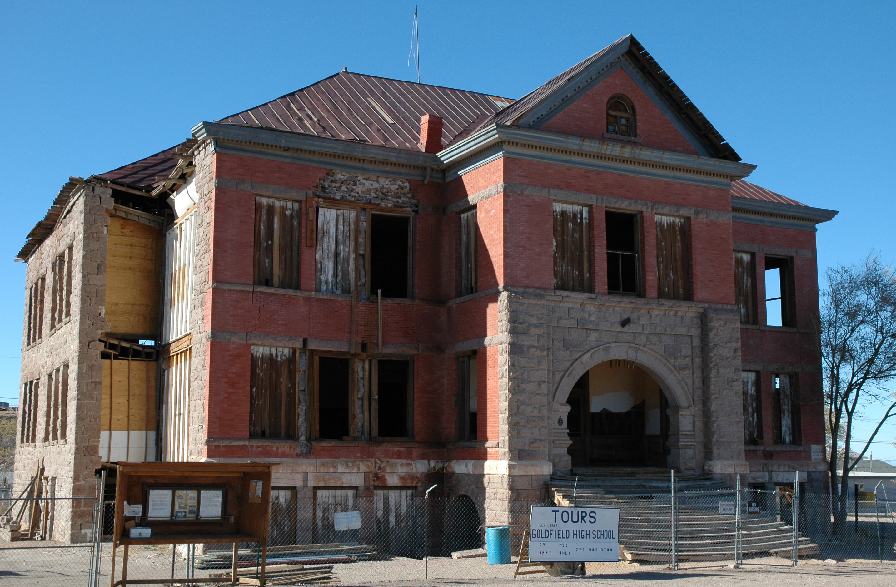 Schoolhouse in Goldfield, Nevada